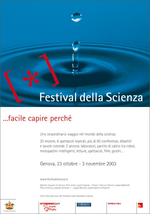 Festival della Scienza 2003